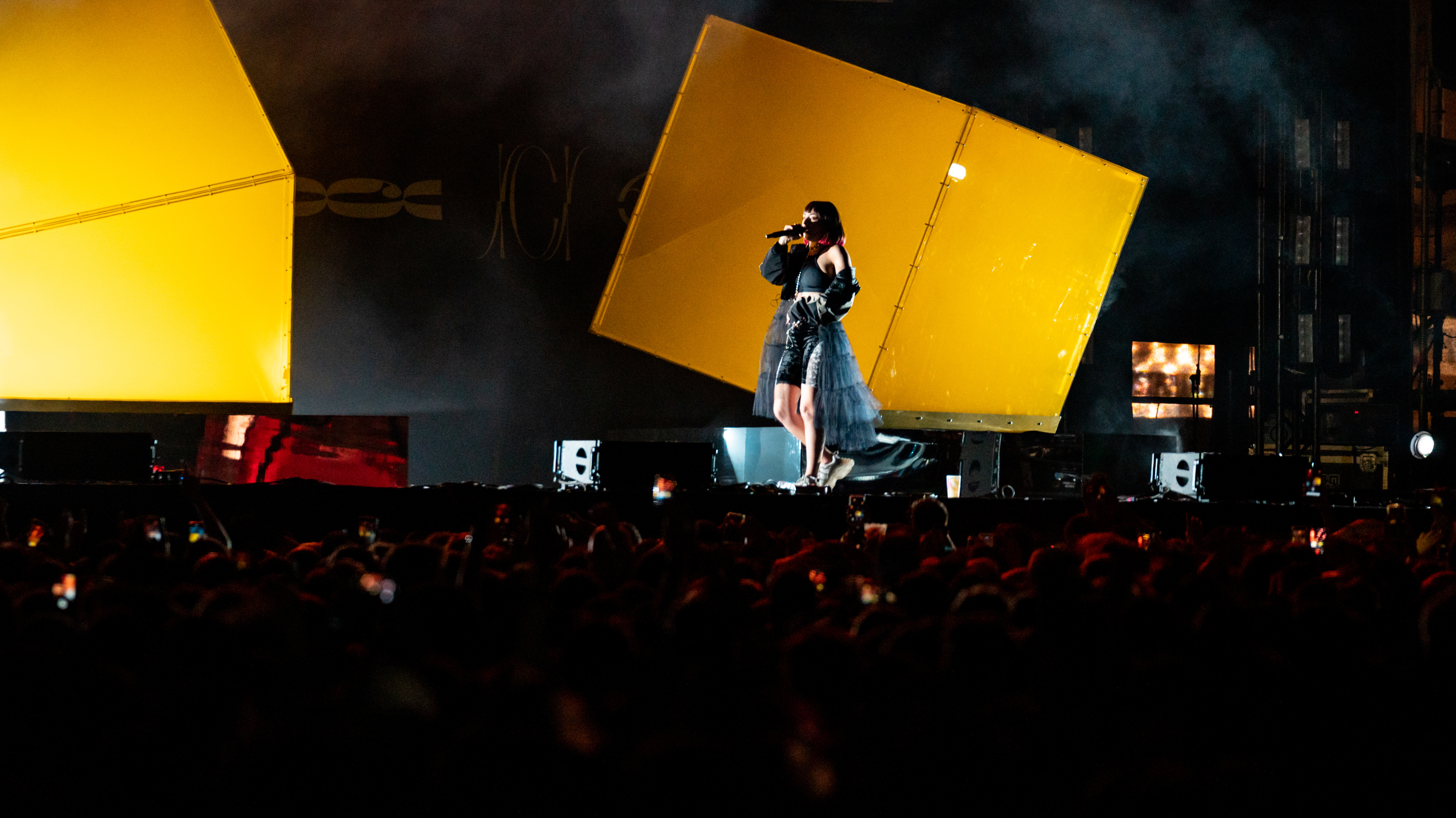 Charli XCX at Primavera Festival 2019